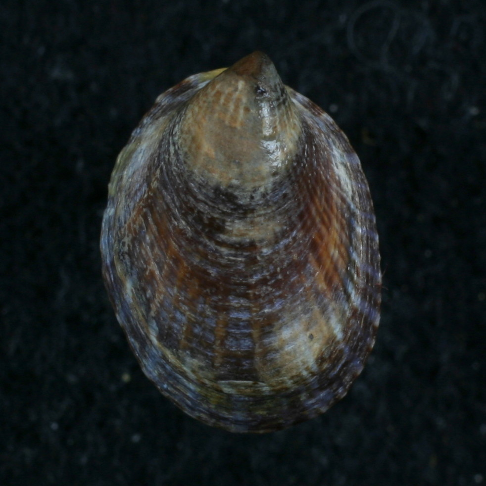 Siphonariidae: Siphonaria lessoni